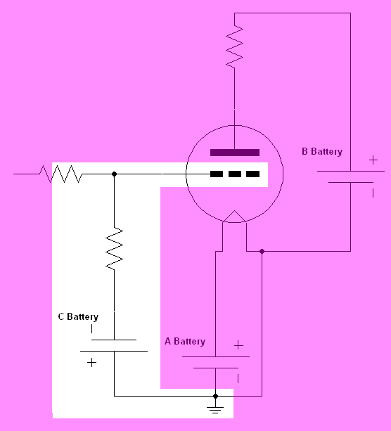 C Battery circuit of a Triode vacuum tube. I drew this. -- RTC 07:27, 21 February 2006 (UTC)